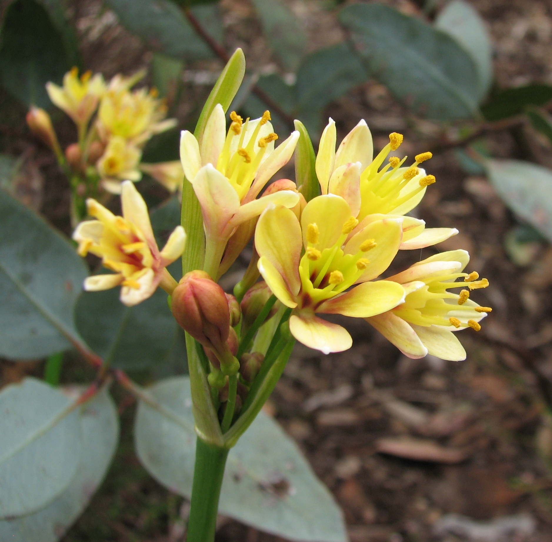 Calostemma luteum (cultivated, labelled), Royal Botanic Gardens Melbourne, Australia